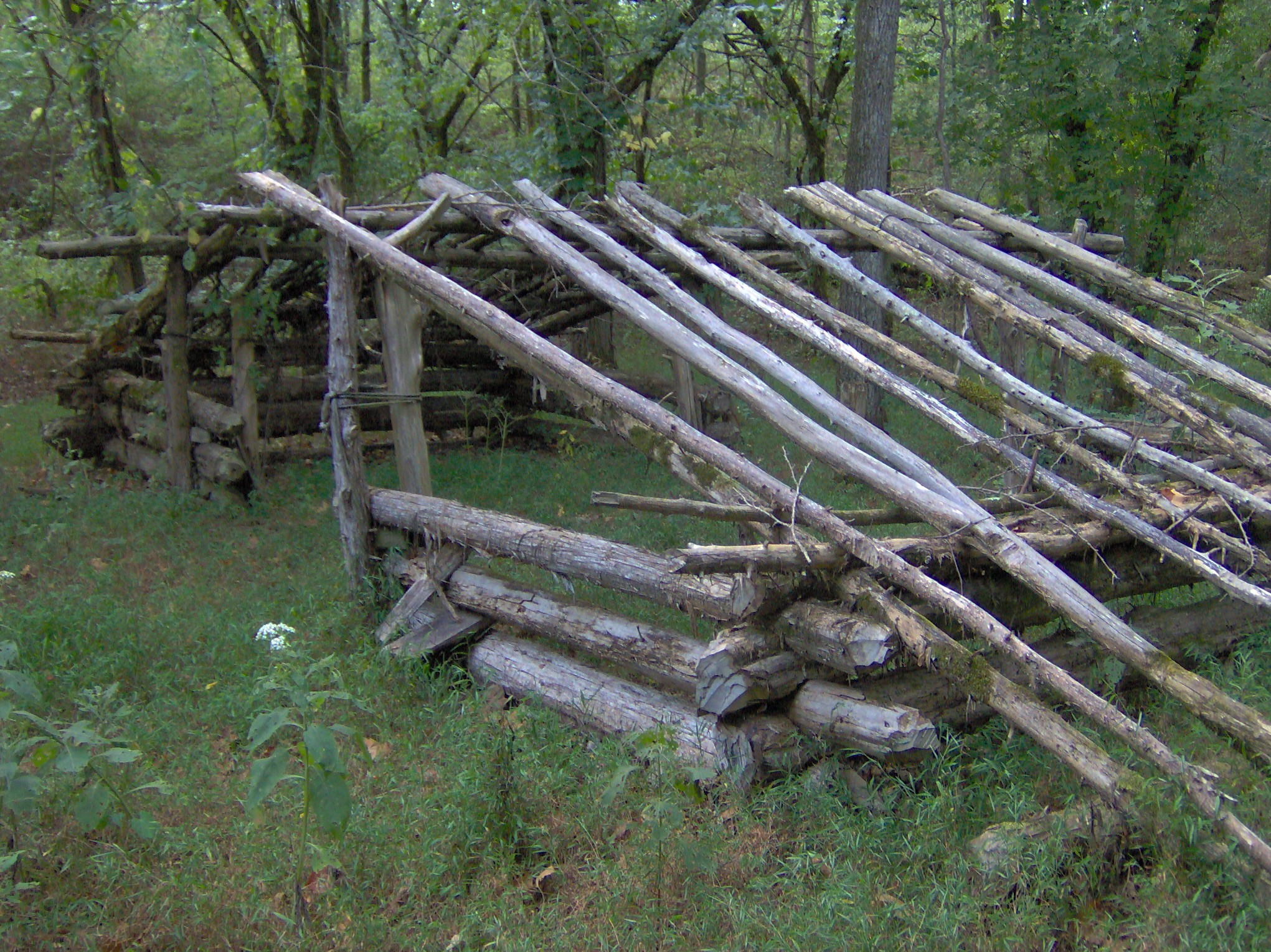 Reconstructed lean-to at the long hunter camp demonstration area at Bledsoe's Fort Historic Park in Sumner County, Tennessee, in the southeastern United States. The first long hunters arrived in this area in the 1770s, and chose this area for a campsite to take advantage of a nearby spring. A salt lick in the vicinity drew large buffalo herds to the area.